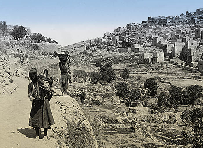 Valleys of Jehoshaphat and Hinnom. Siloam, general view.